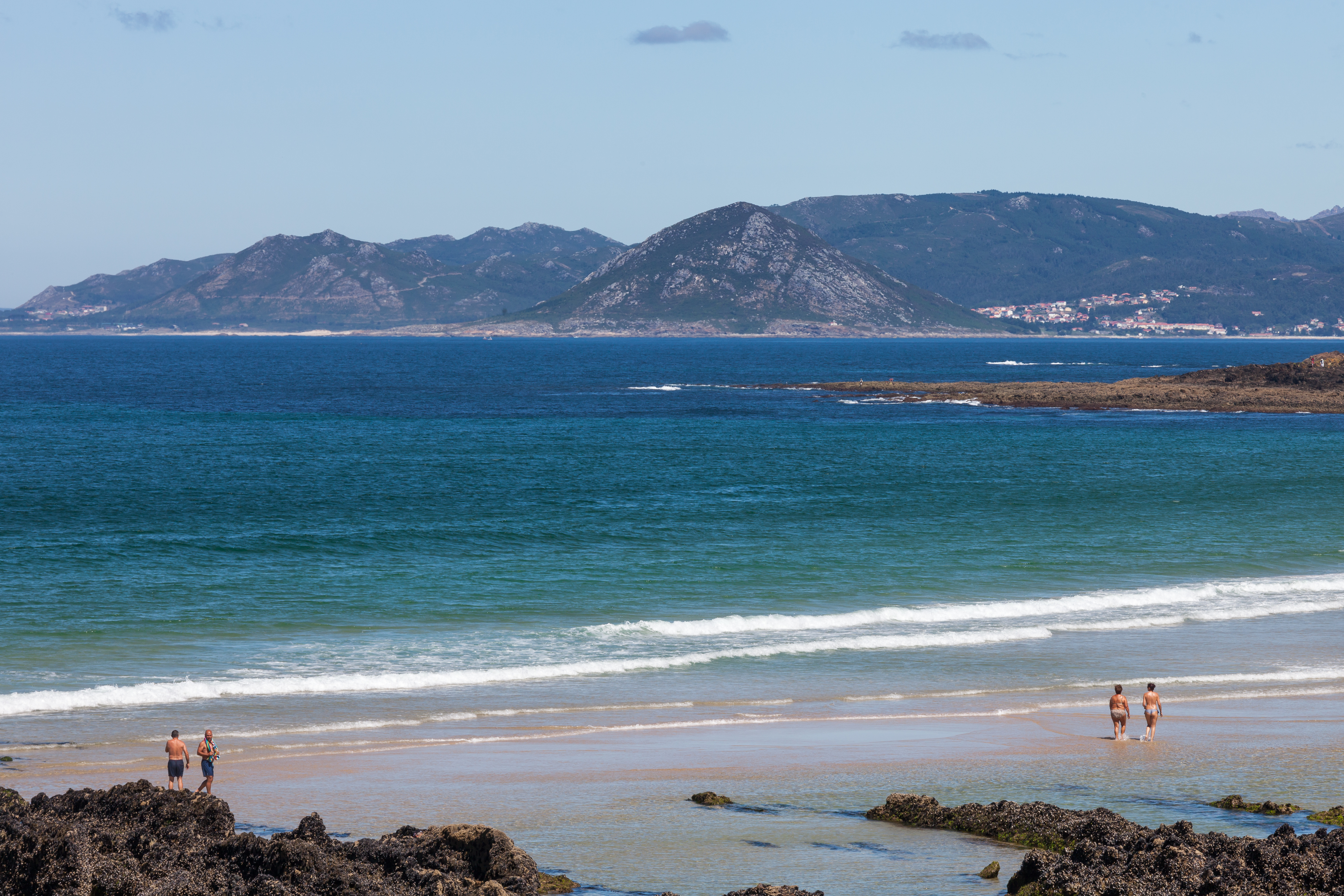 Beach of Sieira river. Xuño. Porto do Son. Galicia (Spain)